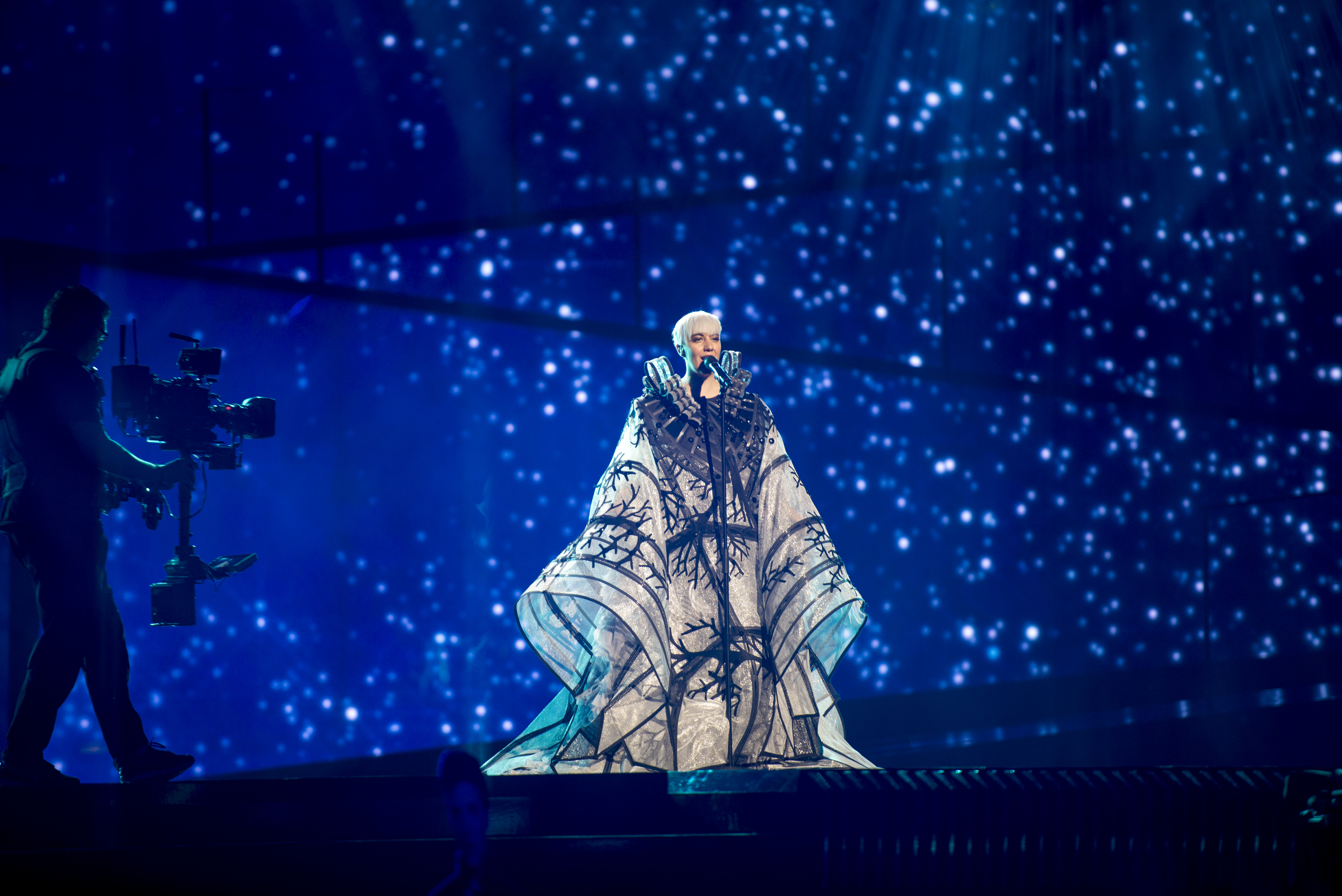 Nina Kraljić representing Croatia with the song "Lighthouse" during a rehearsal before the first semi final of the Eurovision Song Contest 2016 in Stockholm. (Help translate this text)